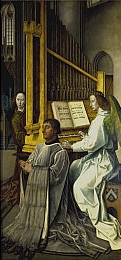 Detail from the "The Trinity Altarpiece: Panel 2. picture: Sir Edward Bonkil wears a long squirrel fur stole.